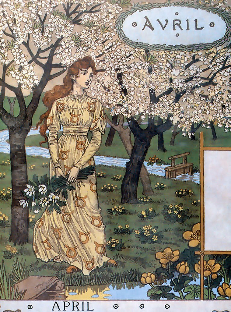 Illustration by Eugène Grasset (1896) from the book, Walk Me Through My Dream (A Picture book of Verses) by Joe Lindsay.